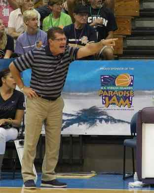 Geno Auriemma at 2012 Paradise Jam making at point